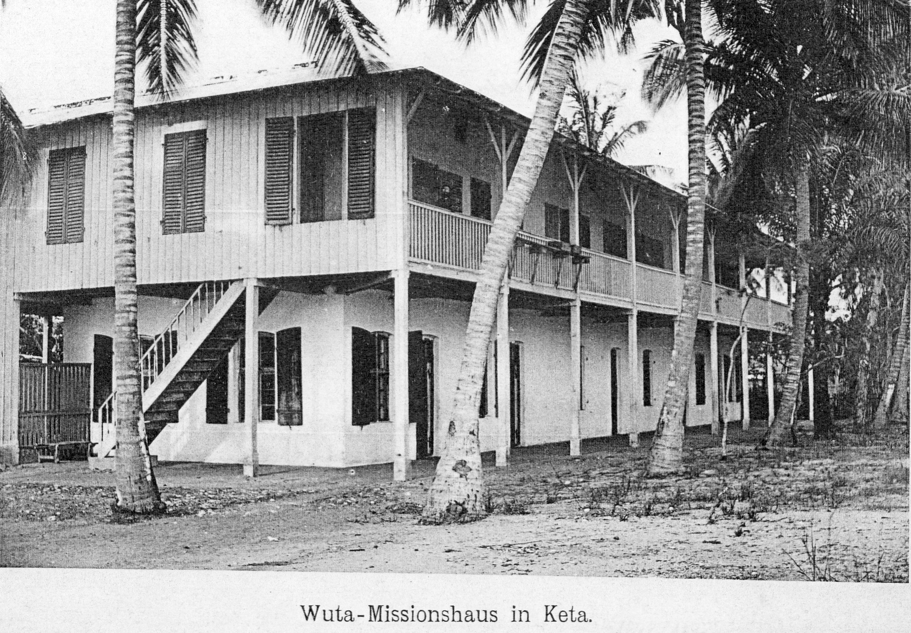 The Wuta mission house of the mission station Keta. The lower rooms were used as an elementary school for about 100 students.